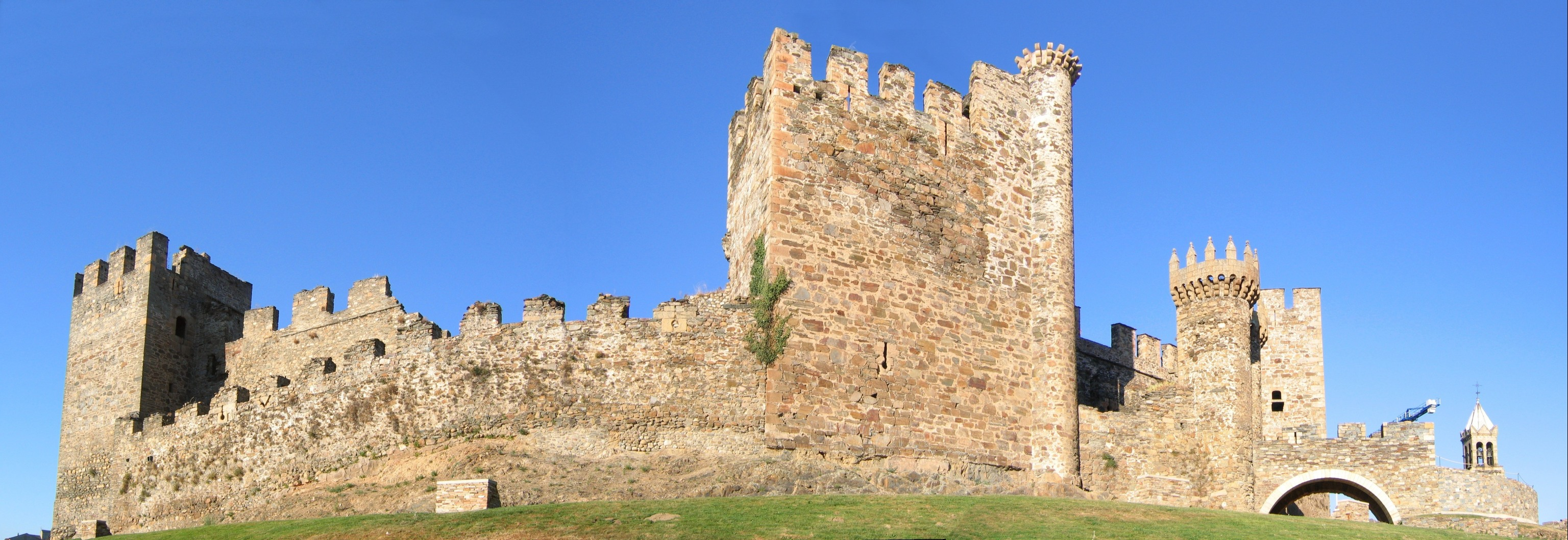 Templar Castle in Ponferrada (Spain).